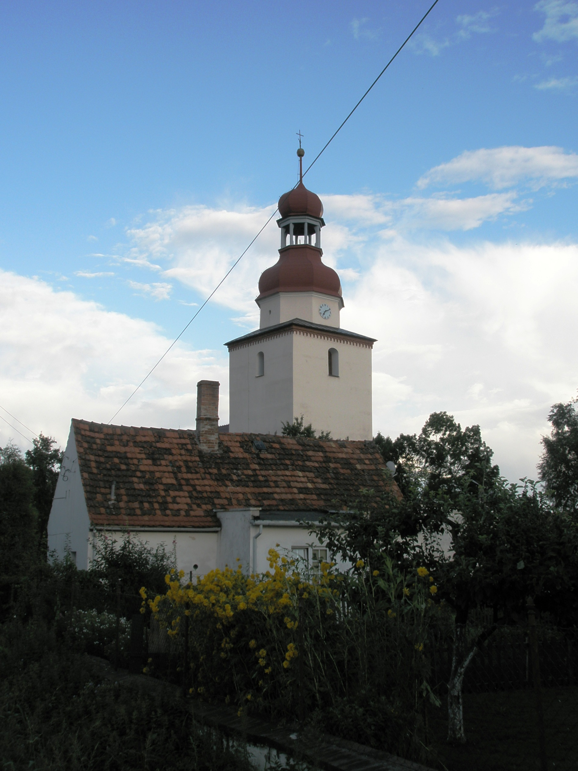 Księginice Wielkie (Großkniegnitz)